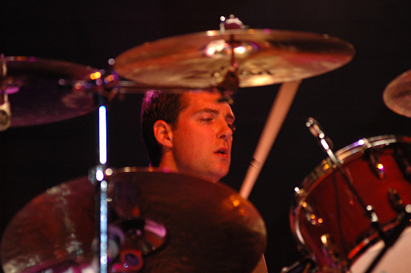 Chad Gracey playing with The Gracious Few